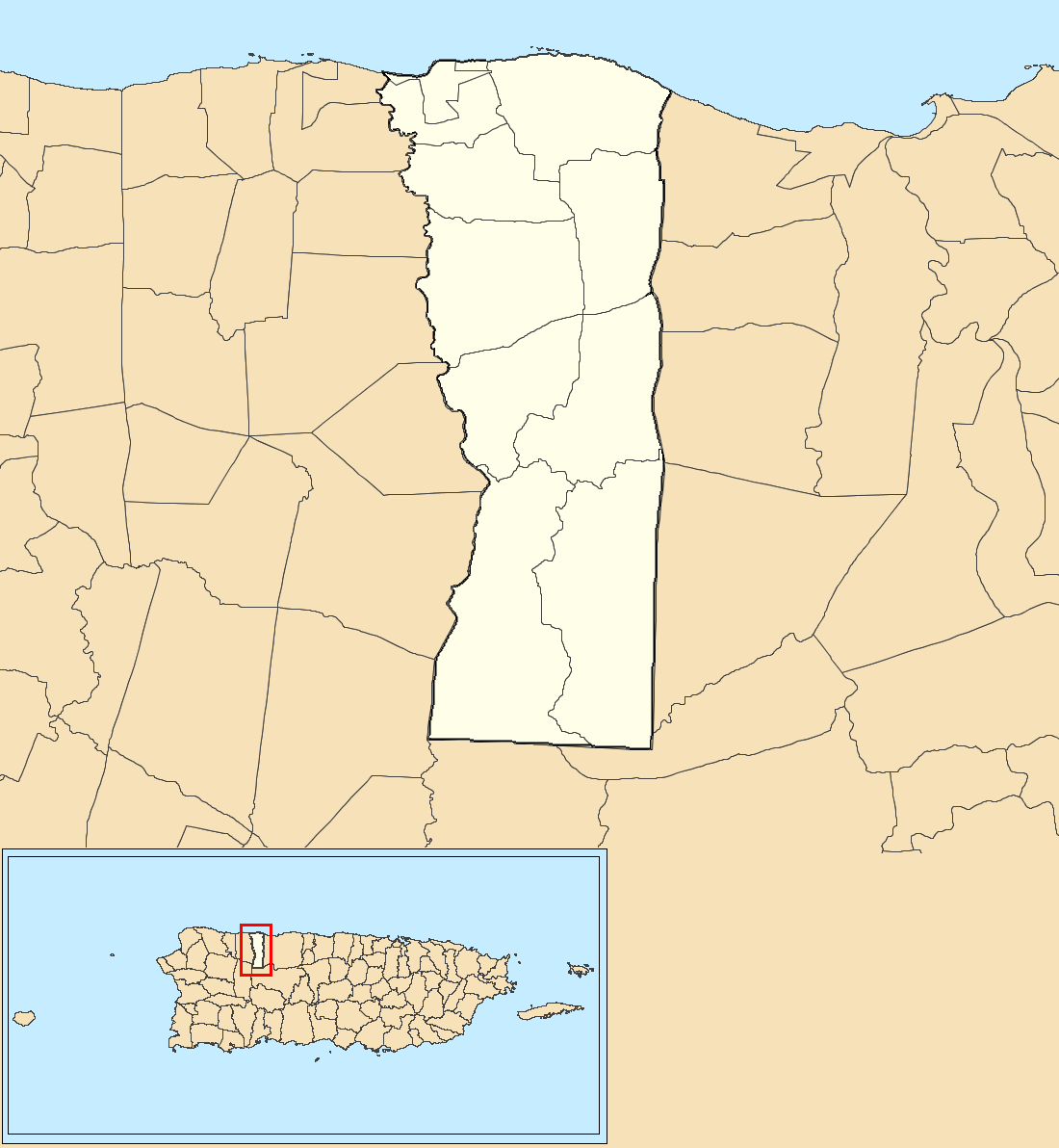 Showing barrios within the municipality